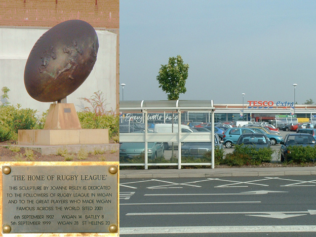 Whatever Happened to Central Park? Wigan is a proud Rugby League town and Central Park was the place of worship (its stadium). Demolished to make way for a Tesco store, the only sign of this heritage is the untitled plaque at the base of the sculpture ironically known by locals as the "Easter Egg".